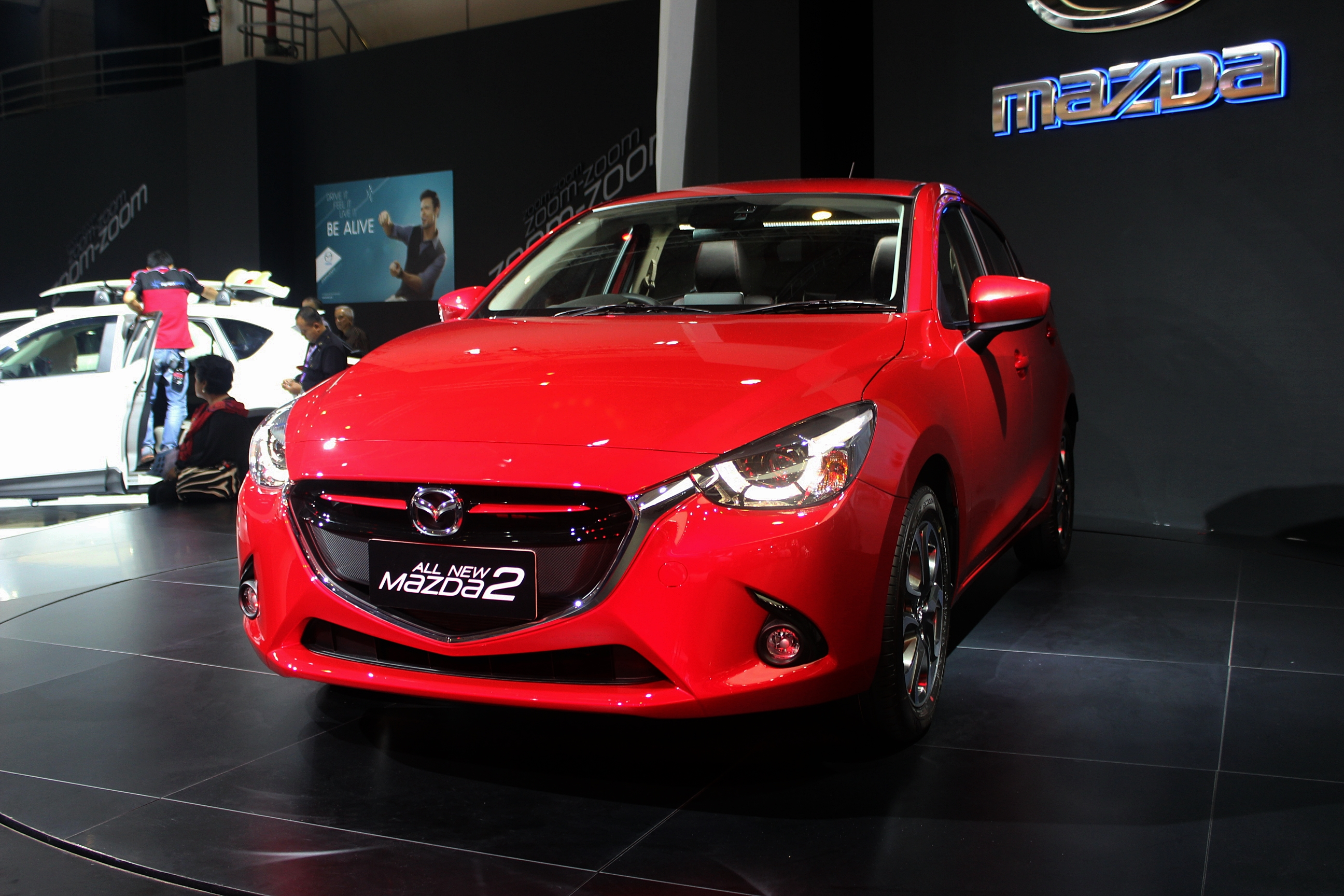 A Mazda2 GT photographed in Indonesia International Motor Show 2014, Jakarta, Indonesia on September 27, 2014.